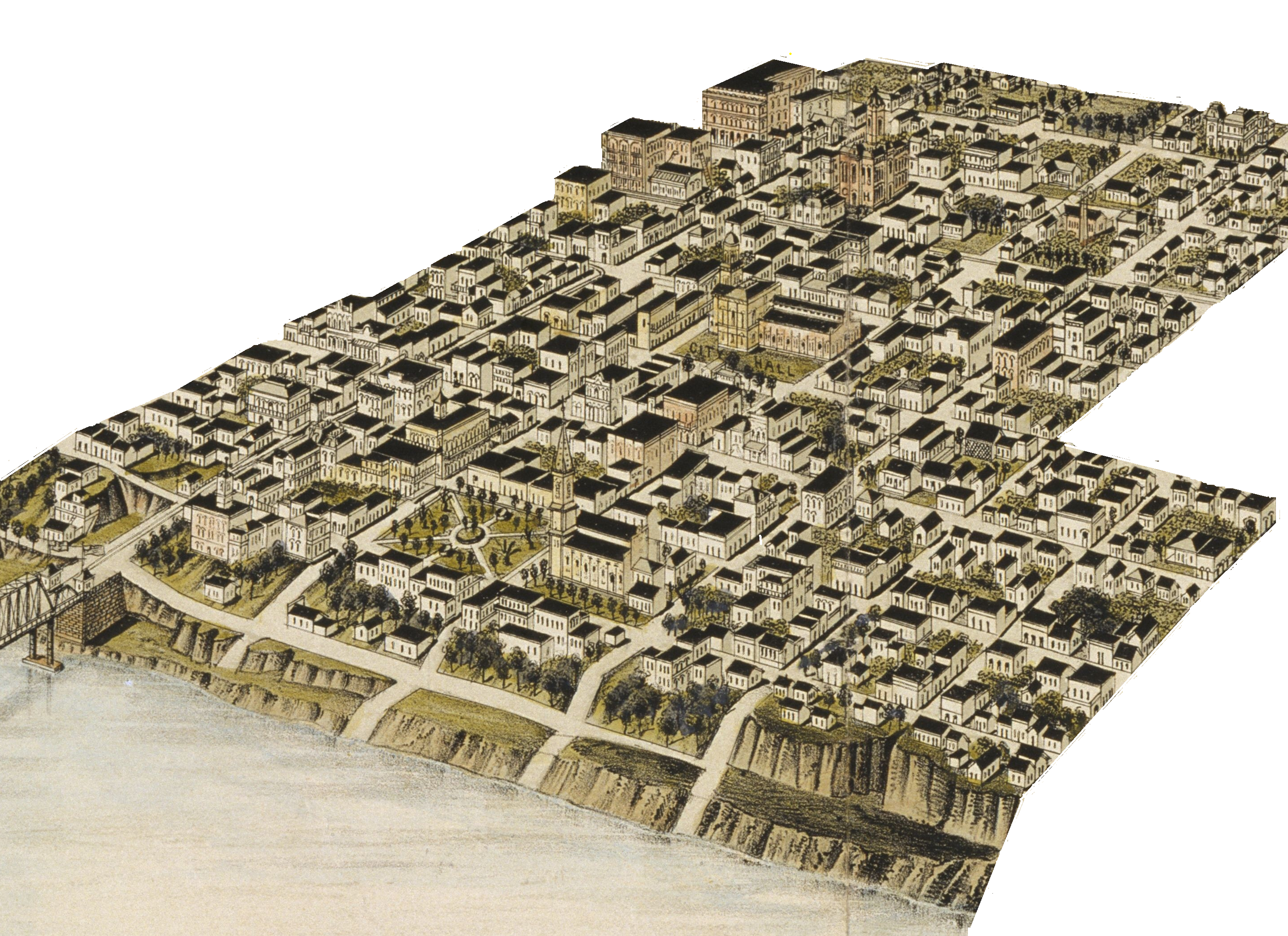 San Agustin historical District in 1892. Perspective Map of the City of Laredo, Texas. The Gateway to and From Mexico, 1892.